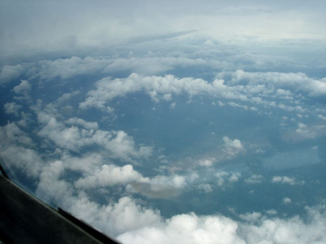 Rita with tropical storm intensity as observed on a Hurricane Hunters' mission.